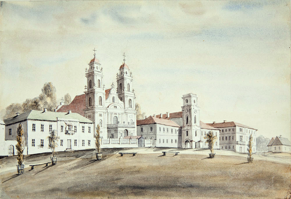 Jesuit church (cathedral) in Minsk painted by Napoleon Orda